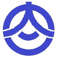 Onjuku Chiba chapter